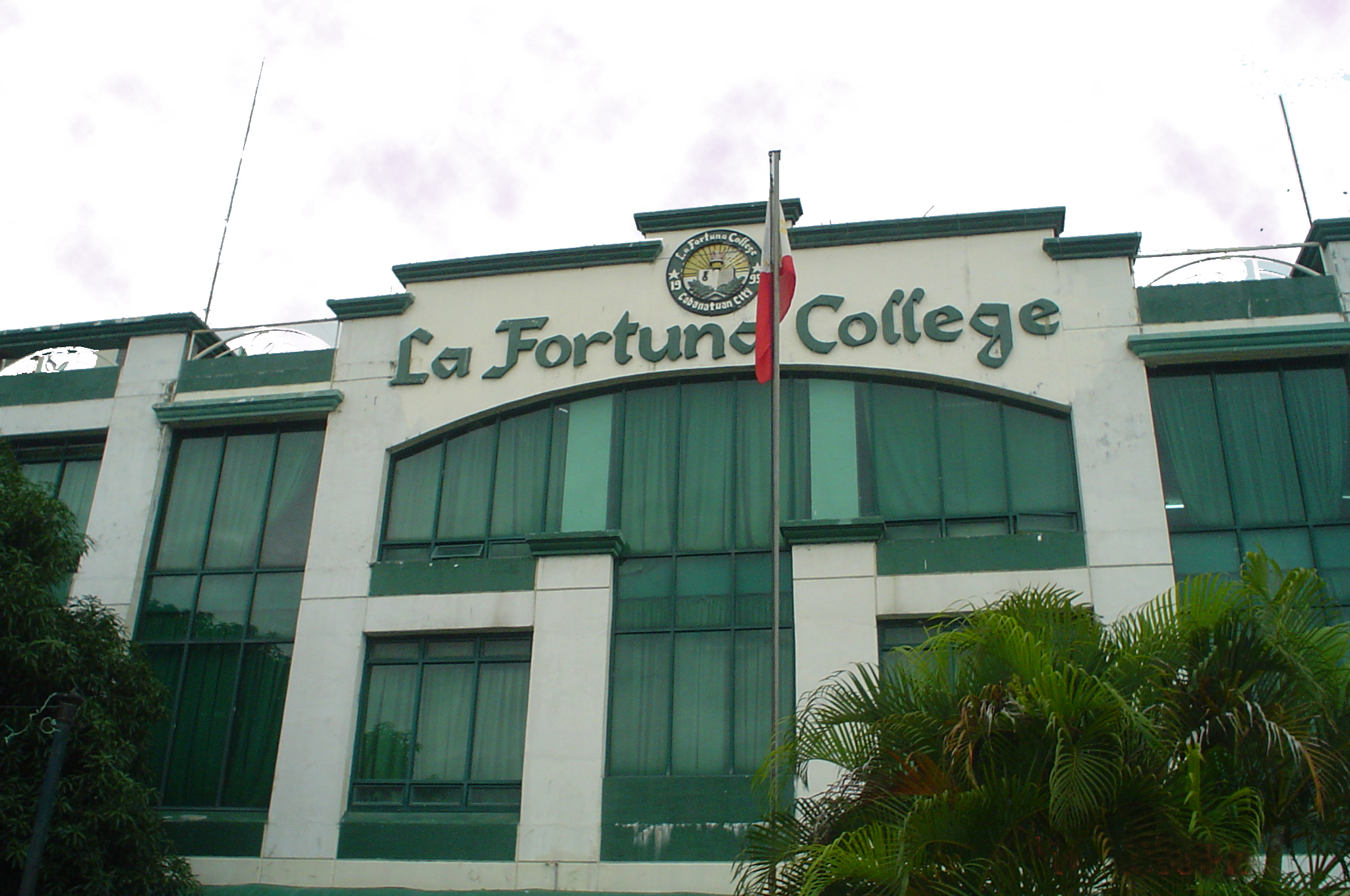 La Fortuna College main building